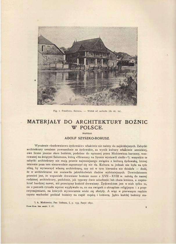 Wooden synagogue of Przedborz: Publication of Adolf Szyszko-Bohusz (1883-1948) describing the synagogue